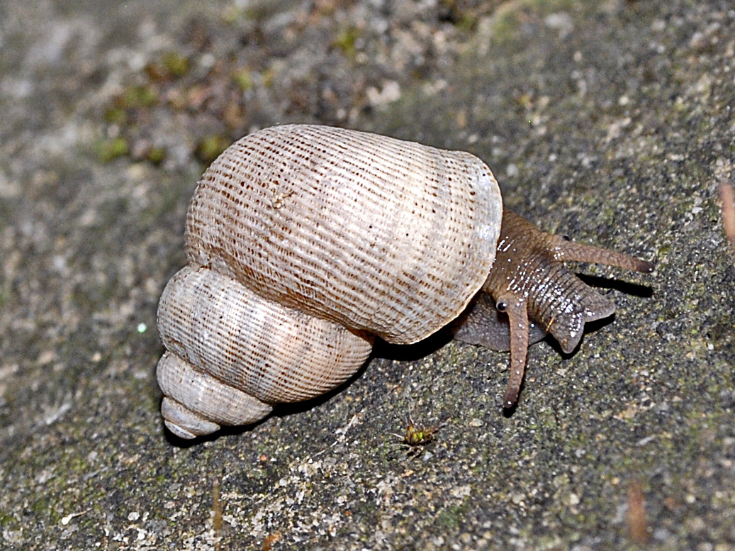 A live individual of Pomatias elegans. Piani di Praglia, Genova, Italy